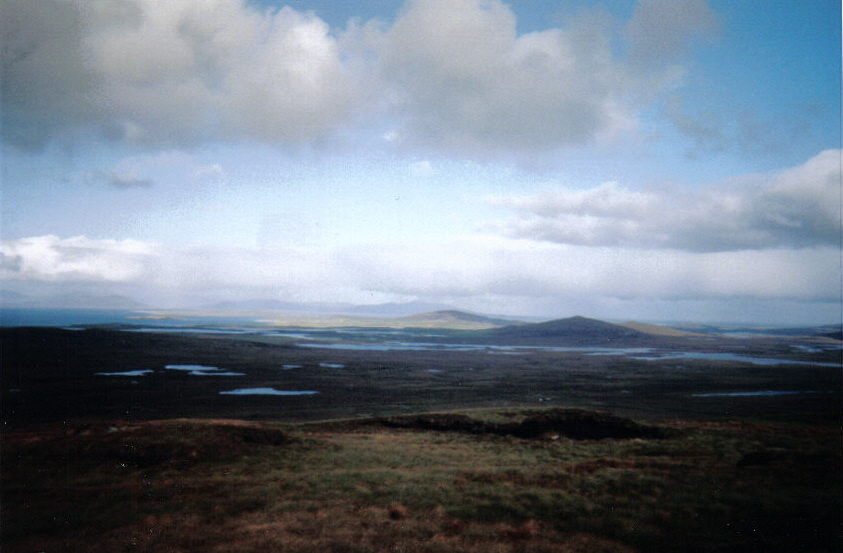 A typical machair landscape in the isle of Uibhist a Tuath (North Uist), looking Northeast, near Malacleit, on top of a small hill.